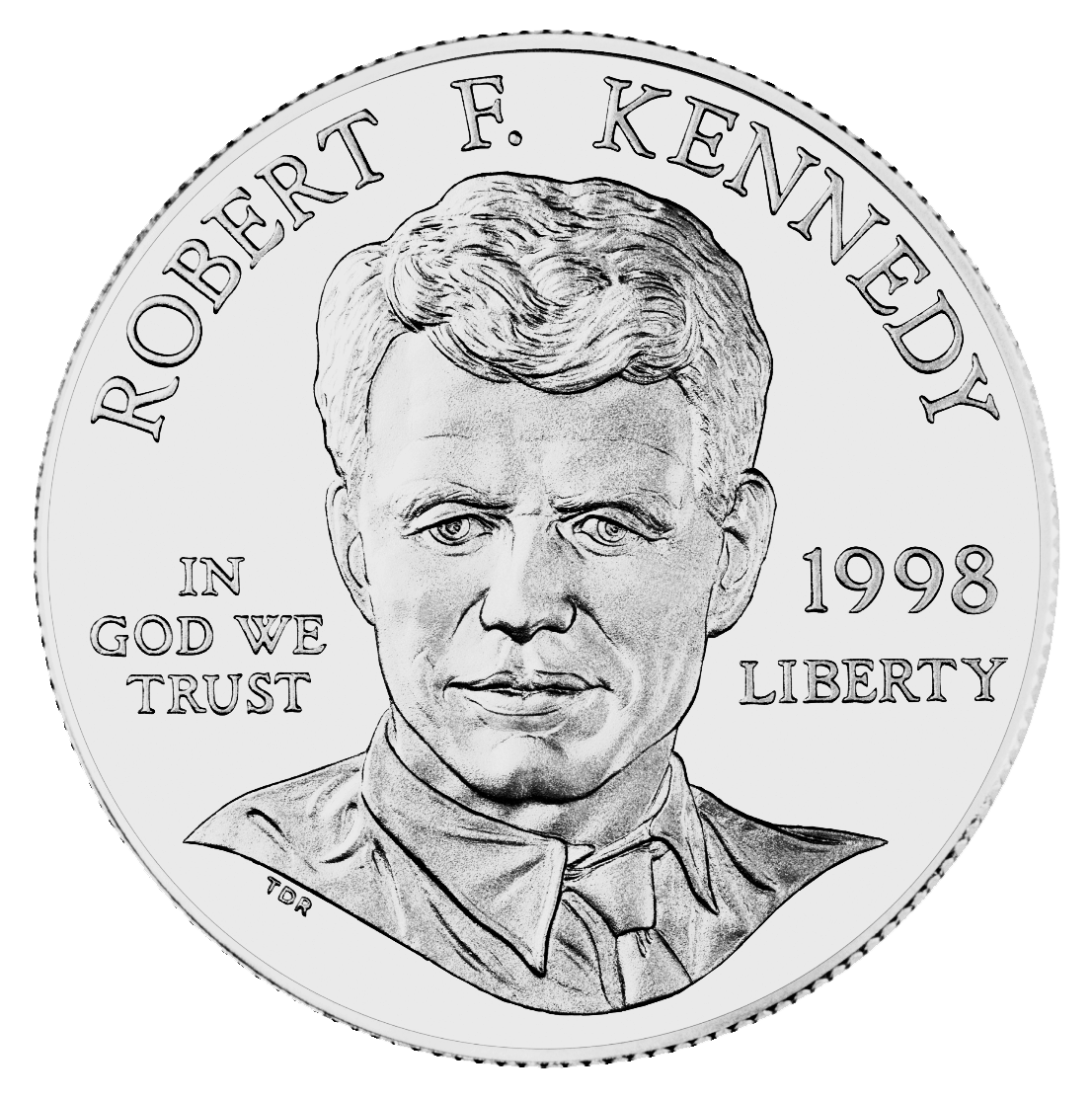 The obverse (heads) side of the 1998 Robert F. Kennedy commemorative silver dollar. For more information, see here.